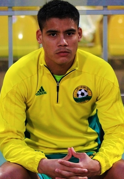 Lorenzo Melgarejo